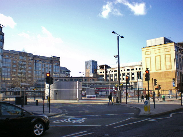 Junction of Butterwick and Hammersmith Road Looking south west with the bus and railway stations in the distance and with St Paul's Church, Hammersmith behind